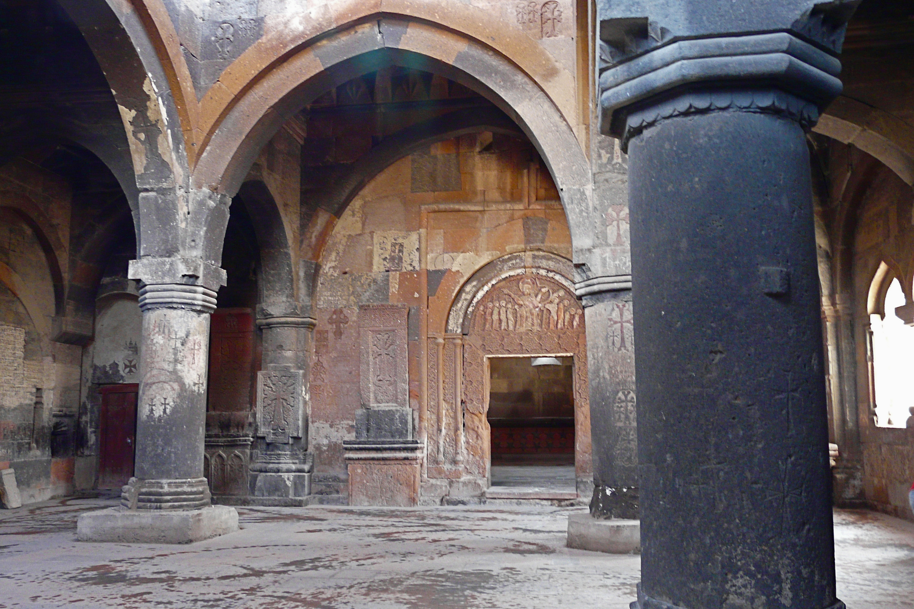 Gavit of St. Karapet, Hovhannavank, Armenia.